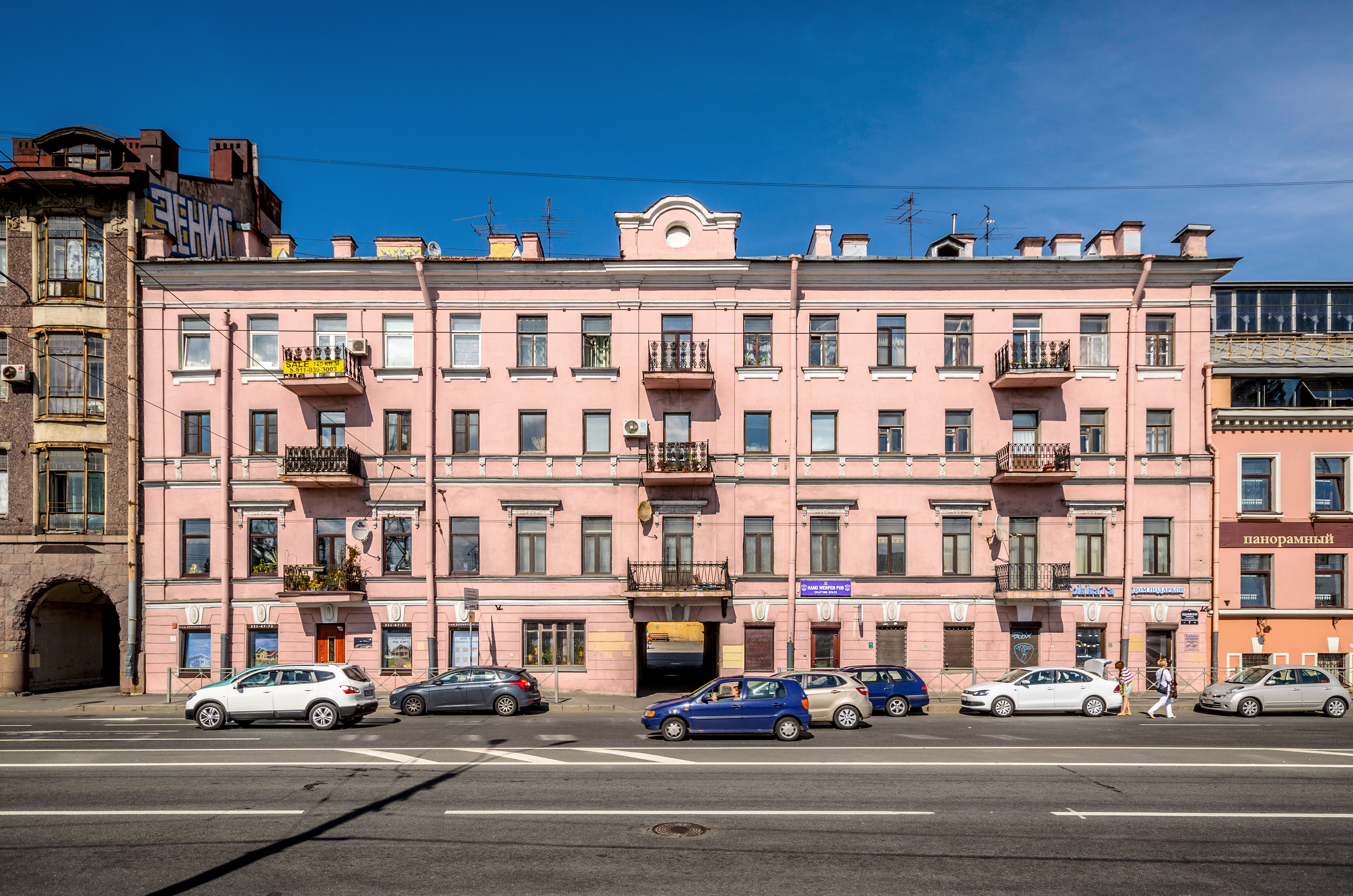 Zhdanovskaya Embankment in Saint Petersburg